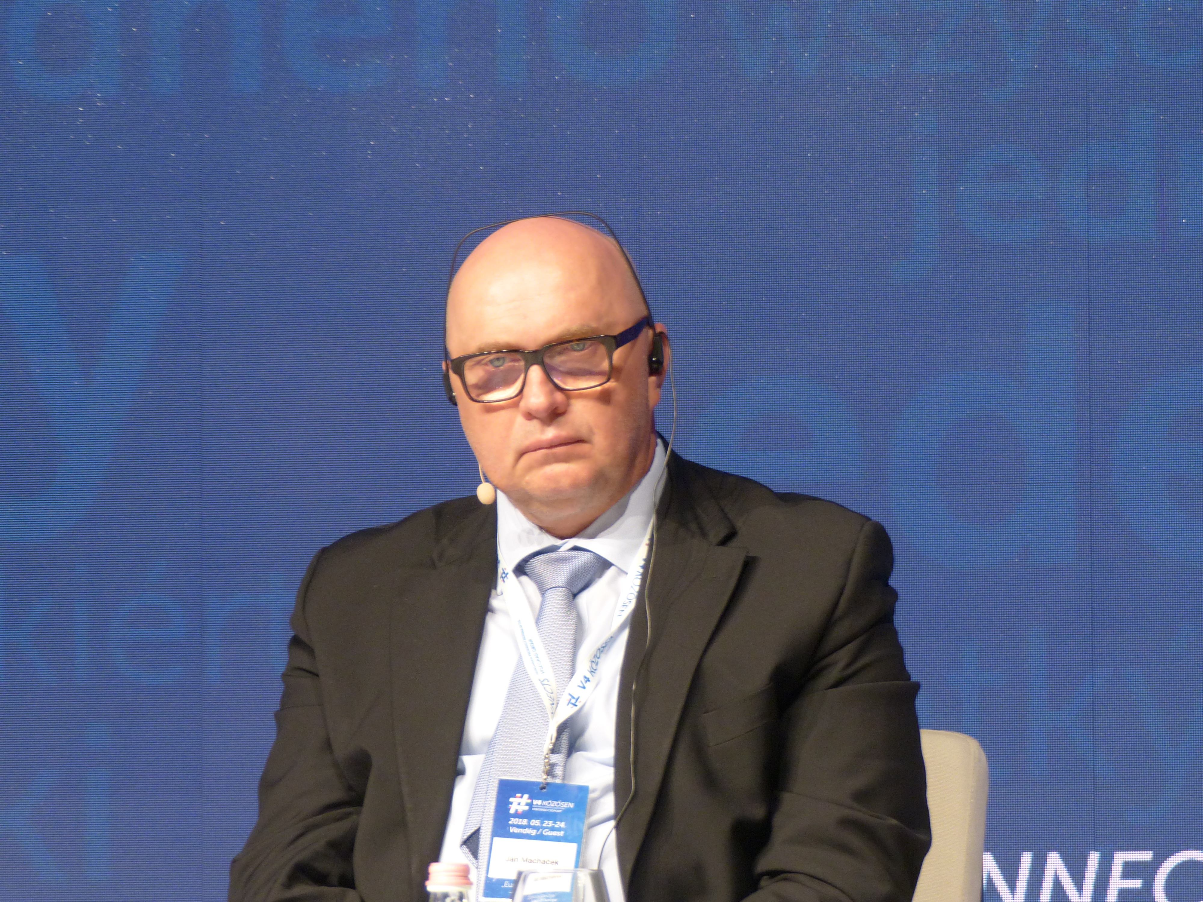 Jan Macháček, Chairman of the Board of Trustees Institute for Politics and Society, Czech Republic. Visegrád Four – the Engine of Europe's Economy. The Future of Europe international conference. Second day, the 24th of May, 2018. Polgári Magyarországért Alapítvány, XXI. Század Intézet, V4 Connects. Várkert Bazár, Budapest, Hungary, Central Europe. V. PANEL DISCUSSION: Levente Magyar, Deputy Minister, Minister of State for Parliamentary Affairs, Ministry of Foreign Affairs and Trade, Hungary, Marcin Piasecki, Chief Investment Officer & Deputy CEO, Polish Development Fund, Vladimír Vaňo, Group Economist & Head of Communications, CentralNic Group PLC, Slovakia Jan Macháček, Chairman of the Board of Trustees Institute for Politics and Society, Czech Republic Daniel J. Mitchell, Economist, author, Chairman and Co-founder of the Center for Freedom and Prosperity, USA Moderator: László György, Chief economist, Economic Policy Research Group, Századvég Foundation